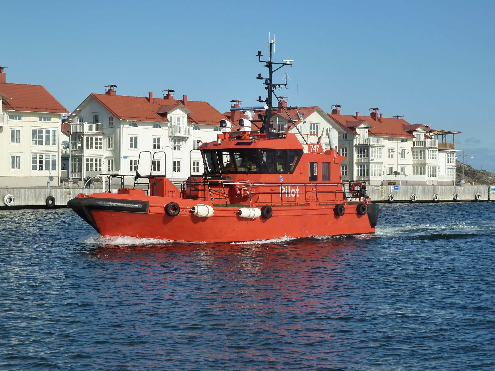 Marstrand pilot boat